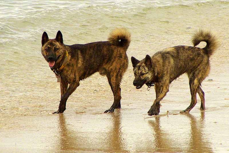 Photo taken at Red Beach, Okinawa, Japan May 25, 2008. This shows a male and female Ryukyu Inu walking on the beach in early morning light.